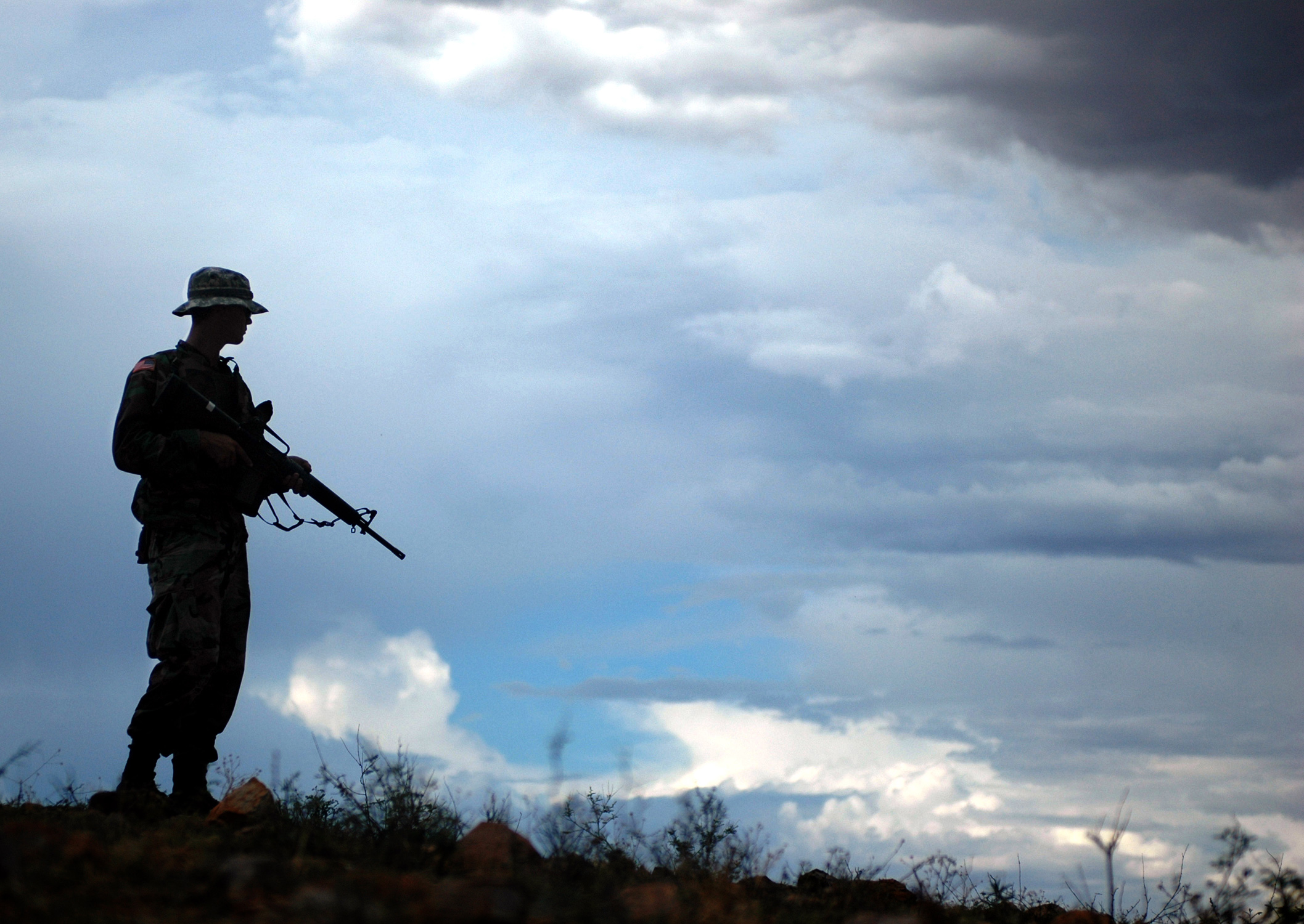 A U.S. Army National Guard member stands watch on a ridge above Nogales, Ariz., on the U.S. border with Mexico, July 19, 2006. The soldiers are currently working with the U.S. Border Patrol in support of Operation Jump Start.